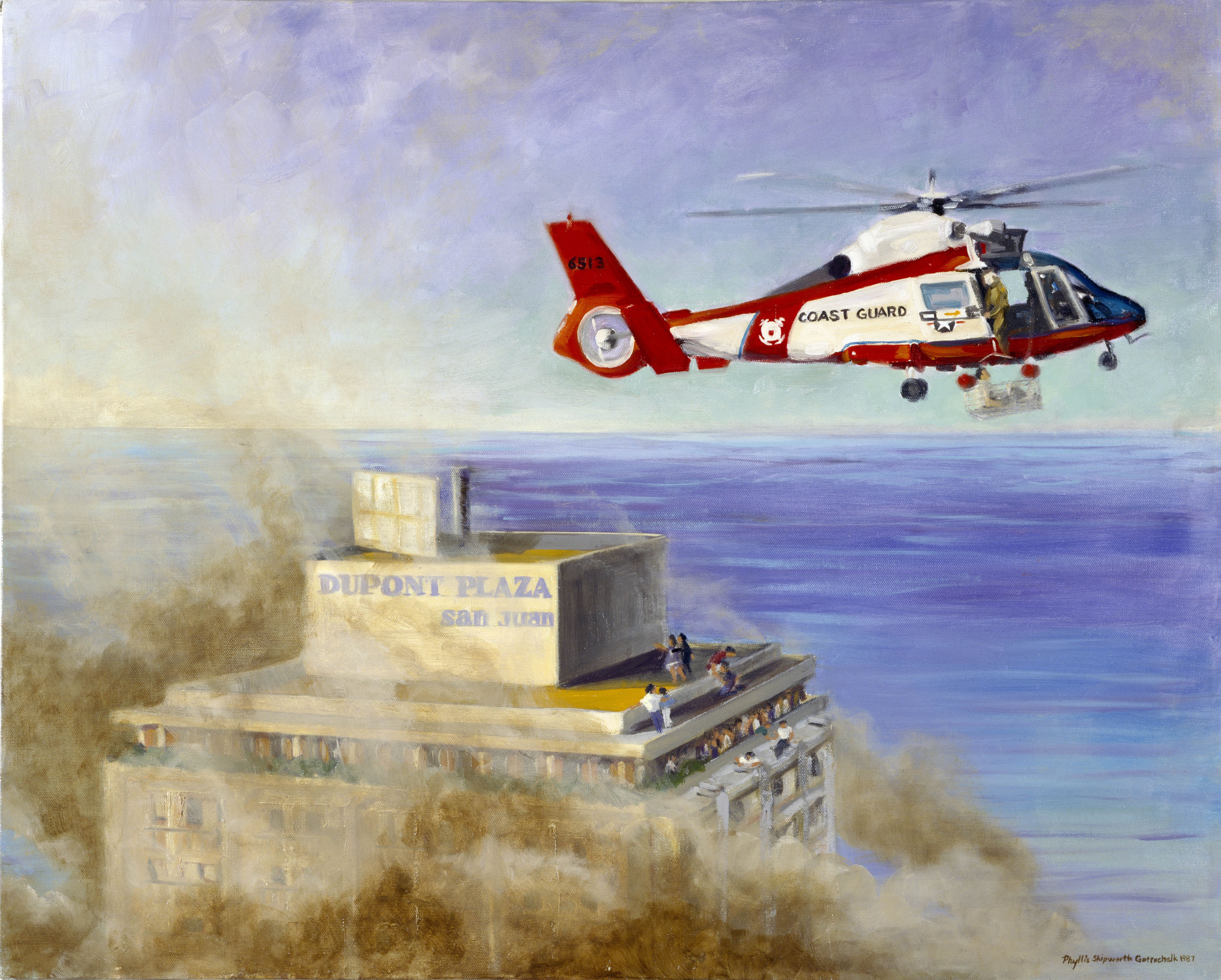 As a Coast Guard crewman hoists a victim of the Dupont Plaza hotel fire in San Juan, Puerto Rico, other victims await rescue on the roof of the hotel.